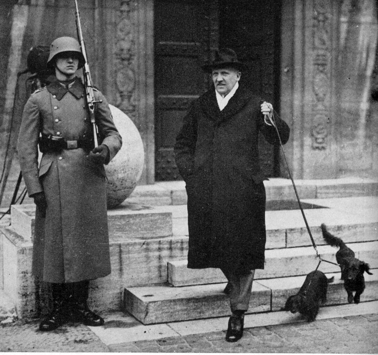 Kurt von Schleicher moving out of his official residence in the Reichswehr Ministry in February of 1933, shortly after being replaced as Reichs-Chancellor by Adolf Hitler.